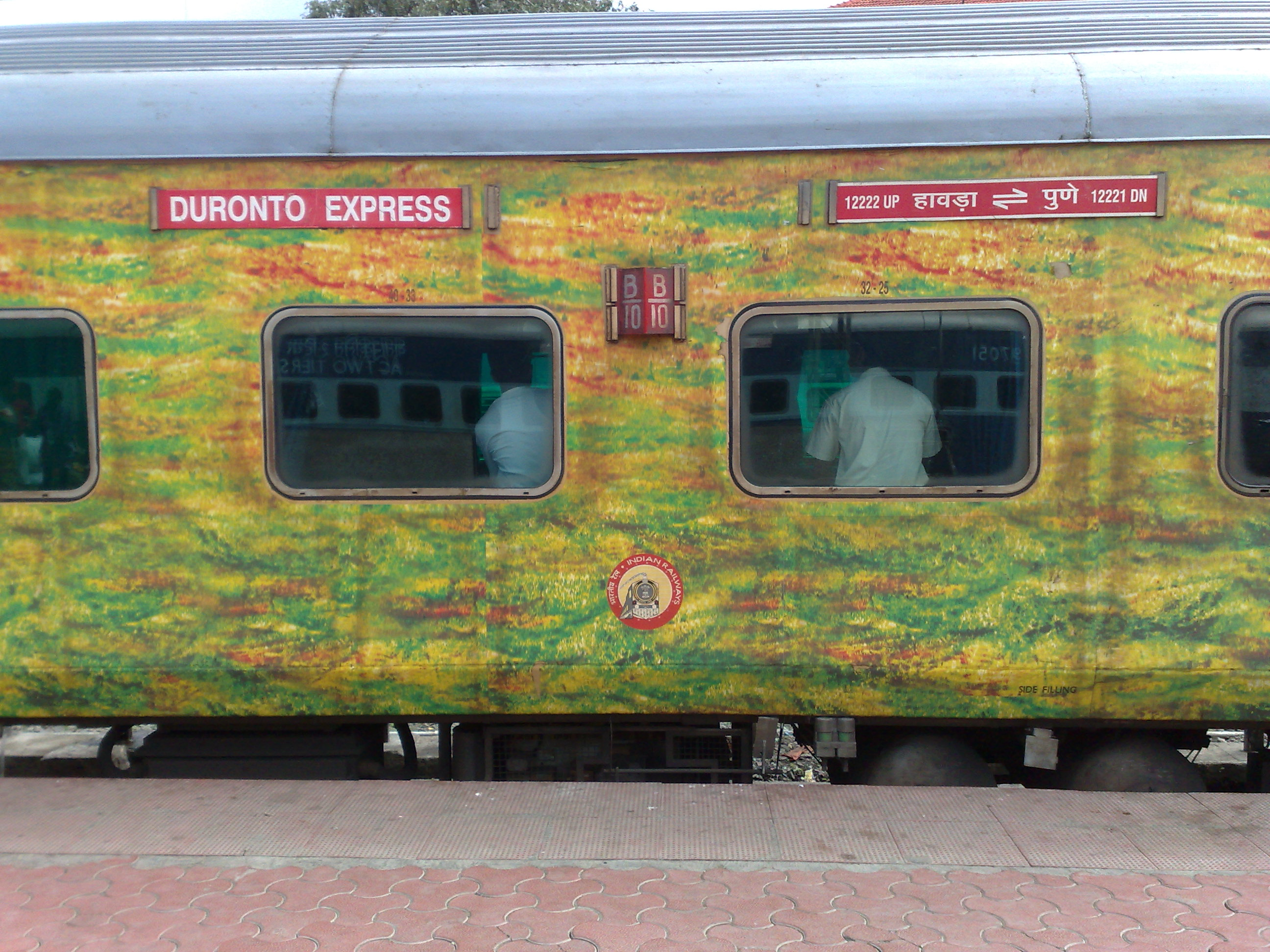 12221 Pune Howrah Duronto Express - AC 3 tier coach